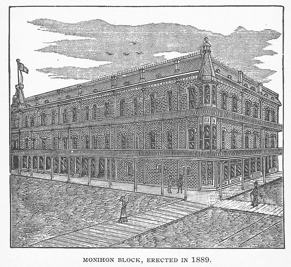 Image of the Monihon building, erected in 1889, from the 1892 Phoenix Directory